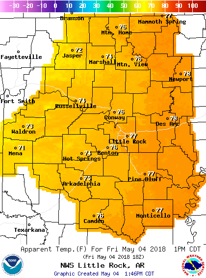 Map of temperatures in central Arkansas to illustrate the counties served by Little Rock office (LZK) of the National Weather Service.